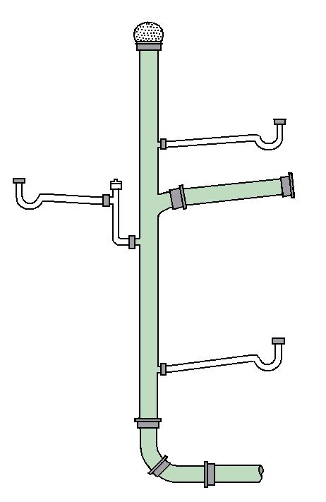 Detail of a soil stack to be used in Drain waste vent system